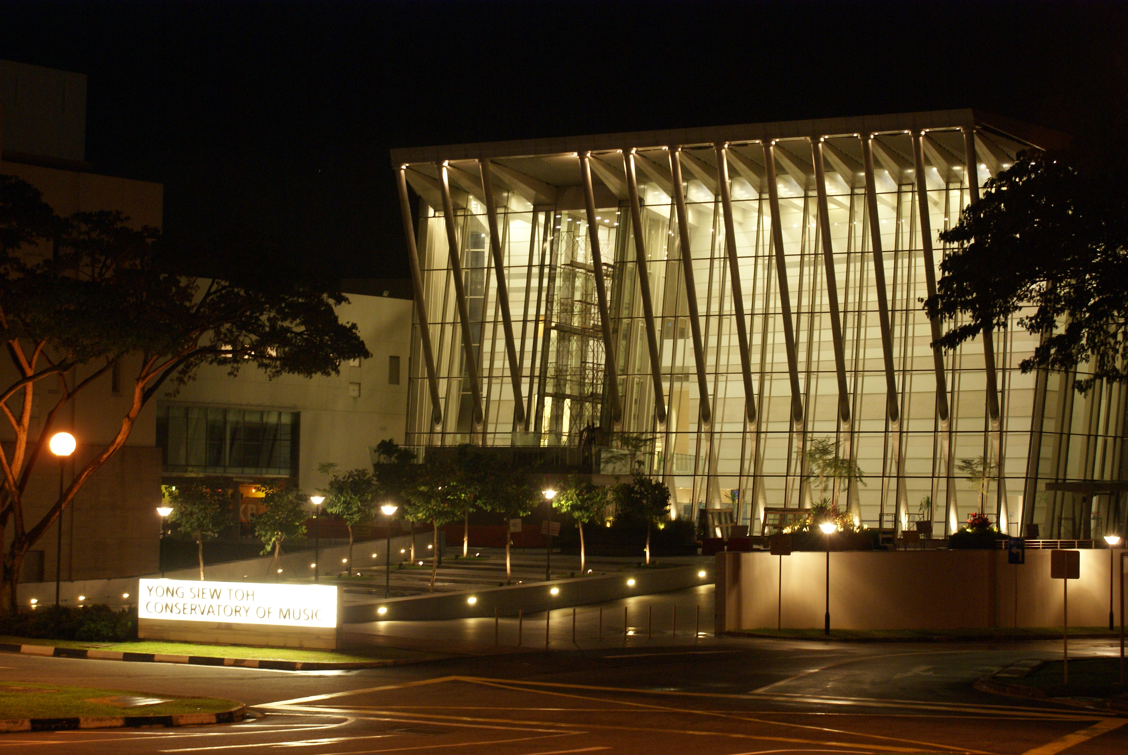 A night view of the Yong Siew Toh Conservatory of Music at the National University of Singapore.